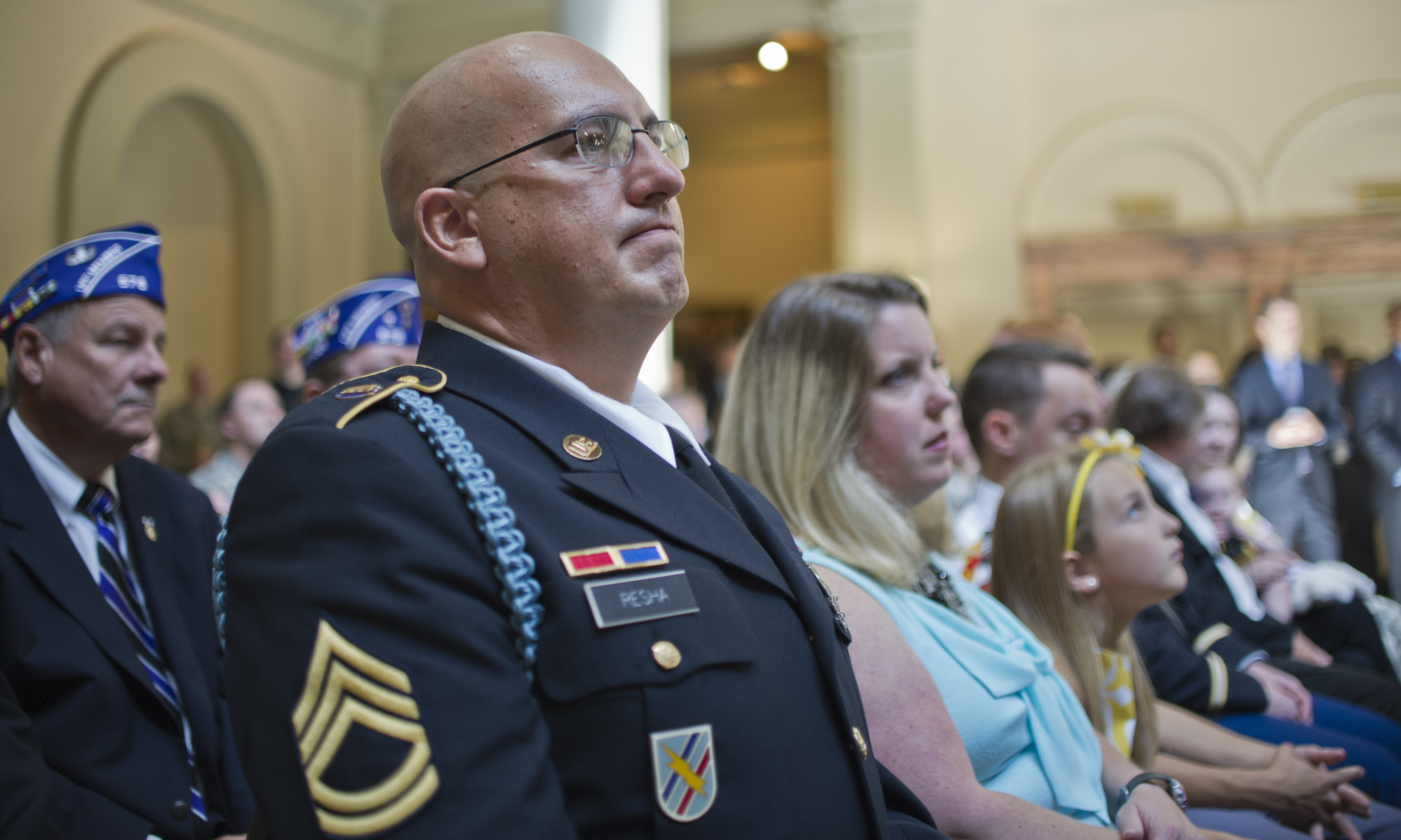 Sgt. 1st Class Thomas Shanon Resha, a Baldwin County patrol supervisor and Georgia National Guard Purple Heart recipient, sits with his family during a moment of remembrance for the fallen, Tuesday. Georgians, National Guardsmen still actively serving the state and those who have given their lives in defense of our country, were honored during a special morning Memorial Day ceremony today by Georgia Governor Nathan Deal, before peers and citizens. Memorializing the more than 6,800 who have given their lives since September 11, 2001, key note speaker, Col. Bruce Chick, Georgia Department of Defense director of domestic operations, called the moment a somber time and that "each figure represents the life of a father, a mother, a brother, a sister, sons and daughters." Chick deployed with the 48th Infantry Brigade Combat Team to Iraq in 2005-2006. "They were family. They were your family. They were MY family!" (Georgia Army National Guard photo by Staff Sgt. Tracy J. Smith)